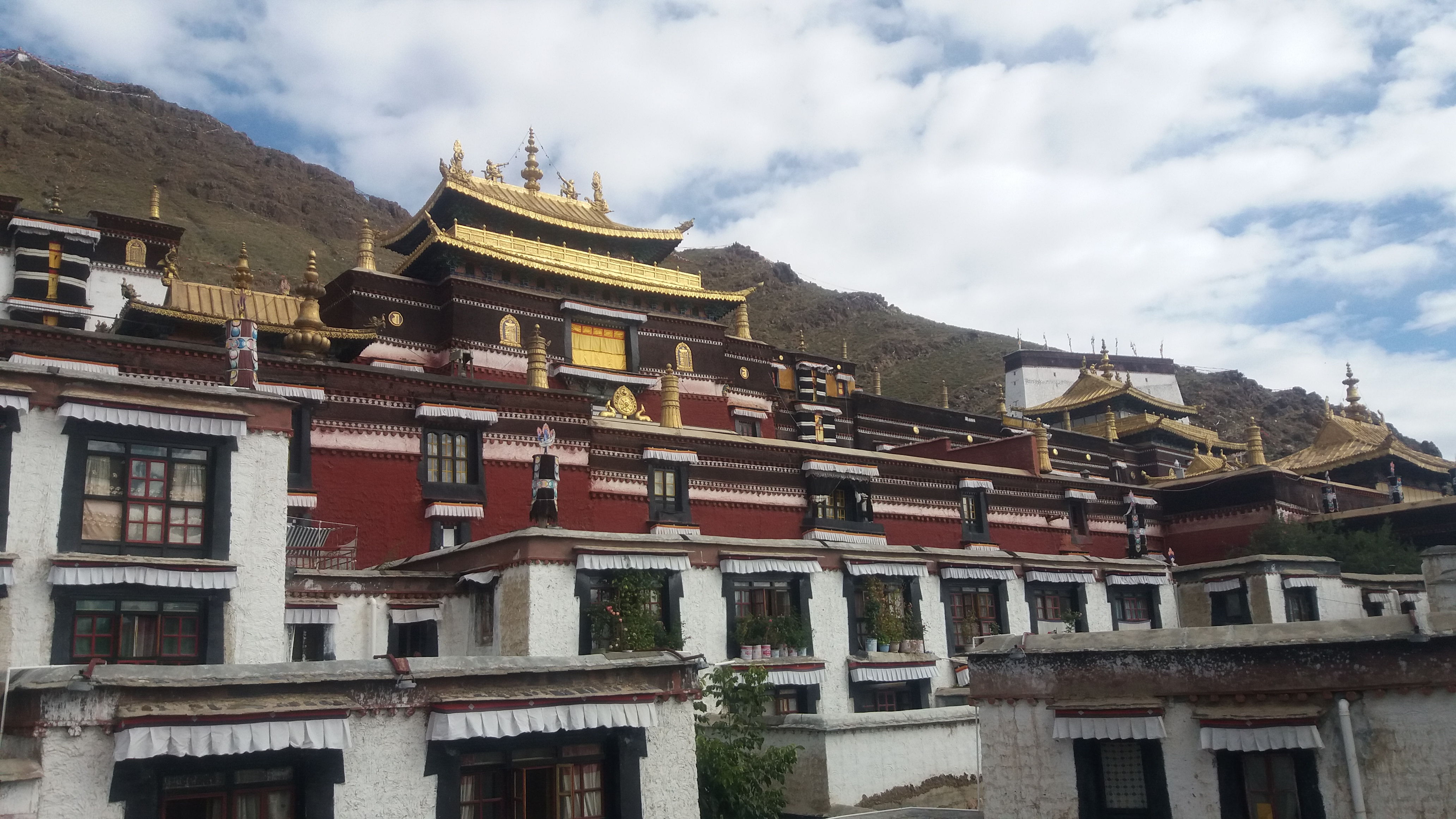 Tashilhunpo